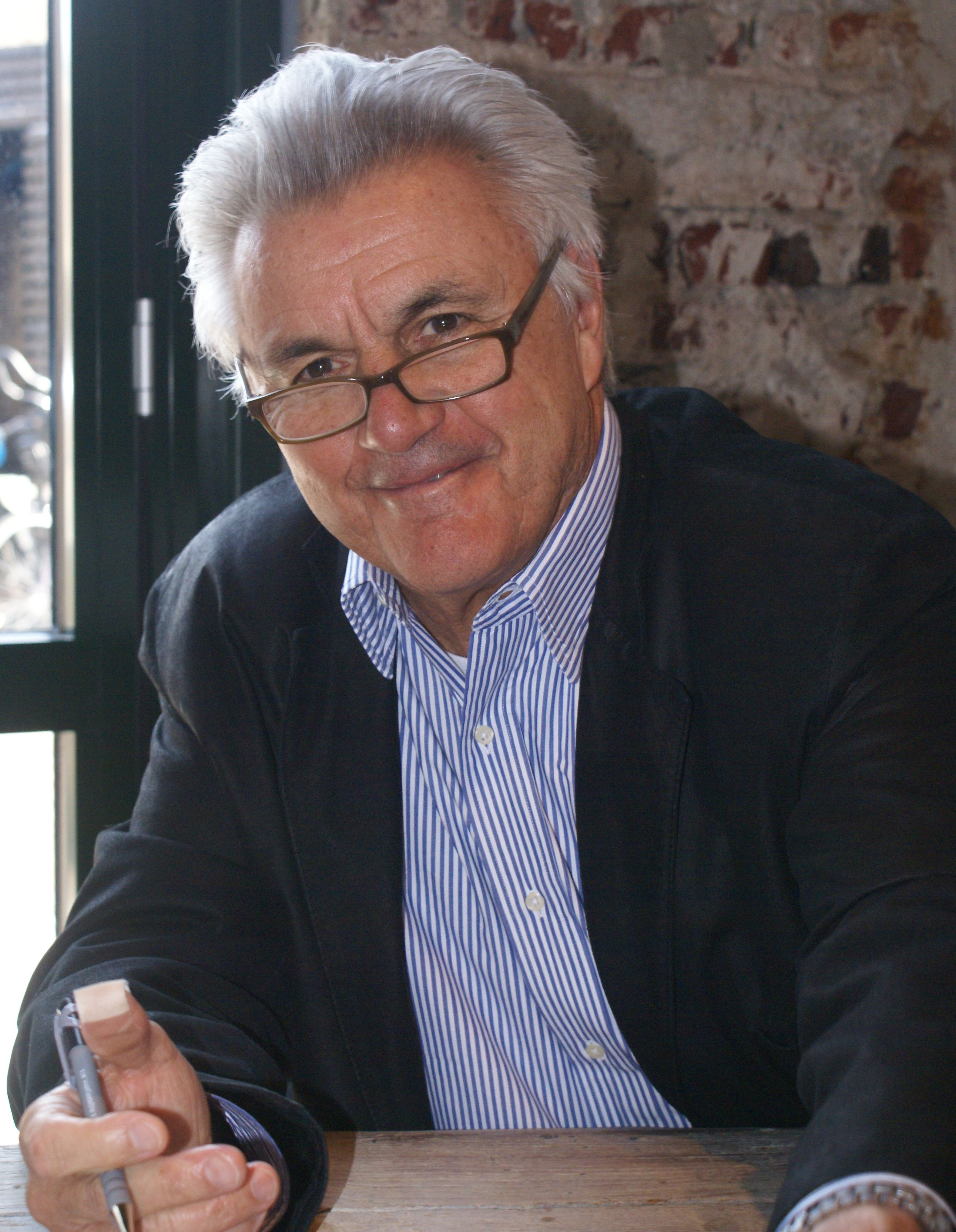 John Irving in Hengelo, Netherlands, in March 2010